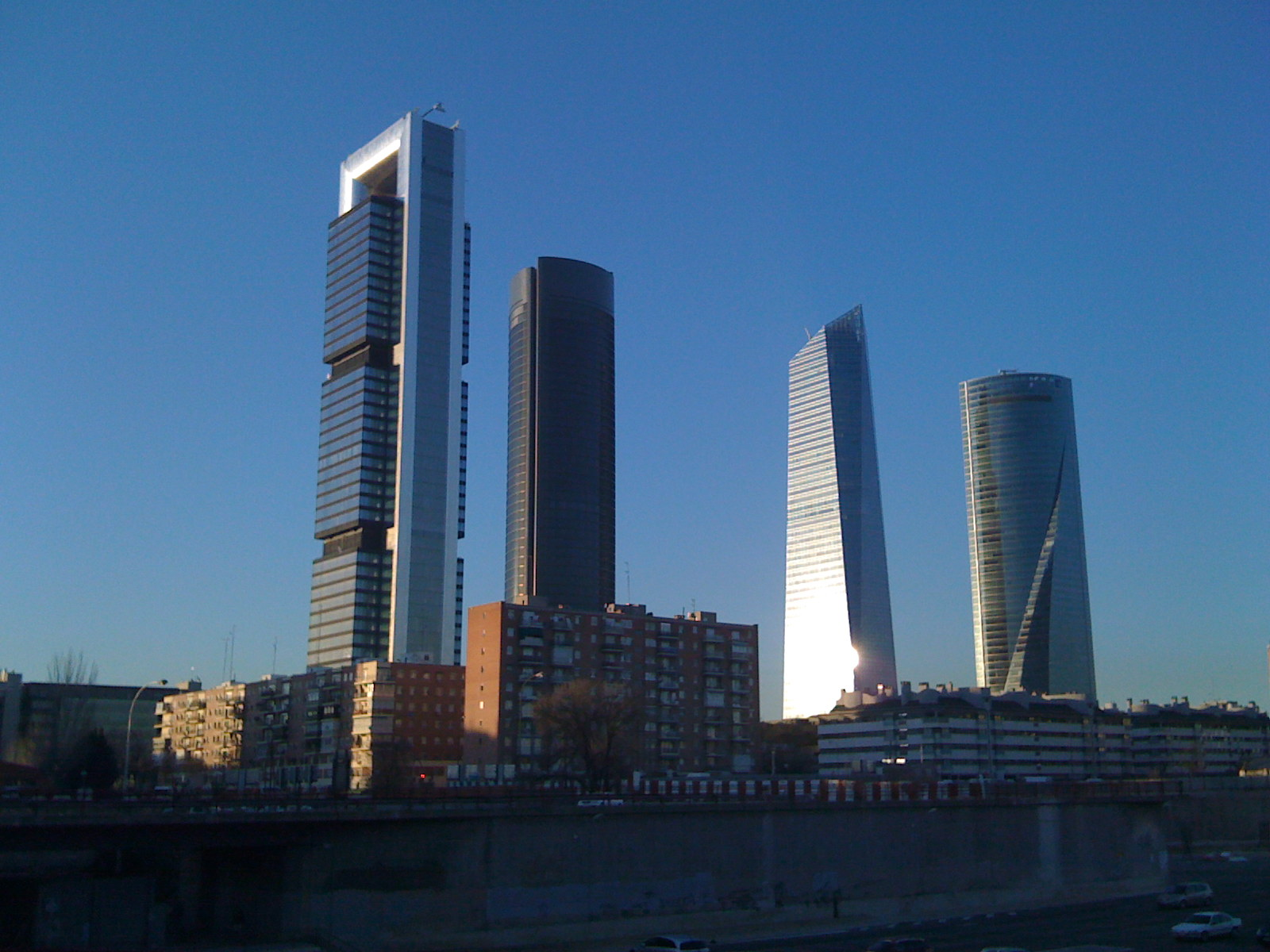 View of Cuatro Torres Business Area (CTBA) in Madrid (Spain) from Chamartín railway station.